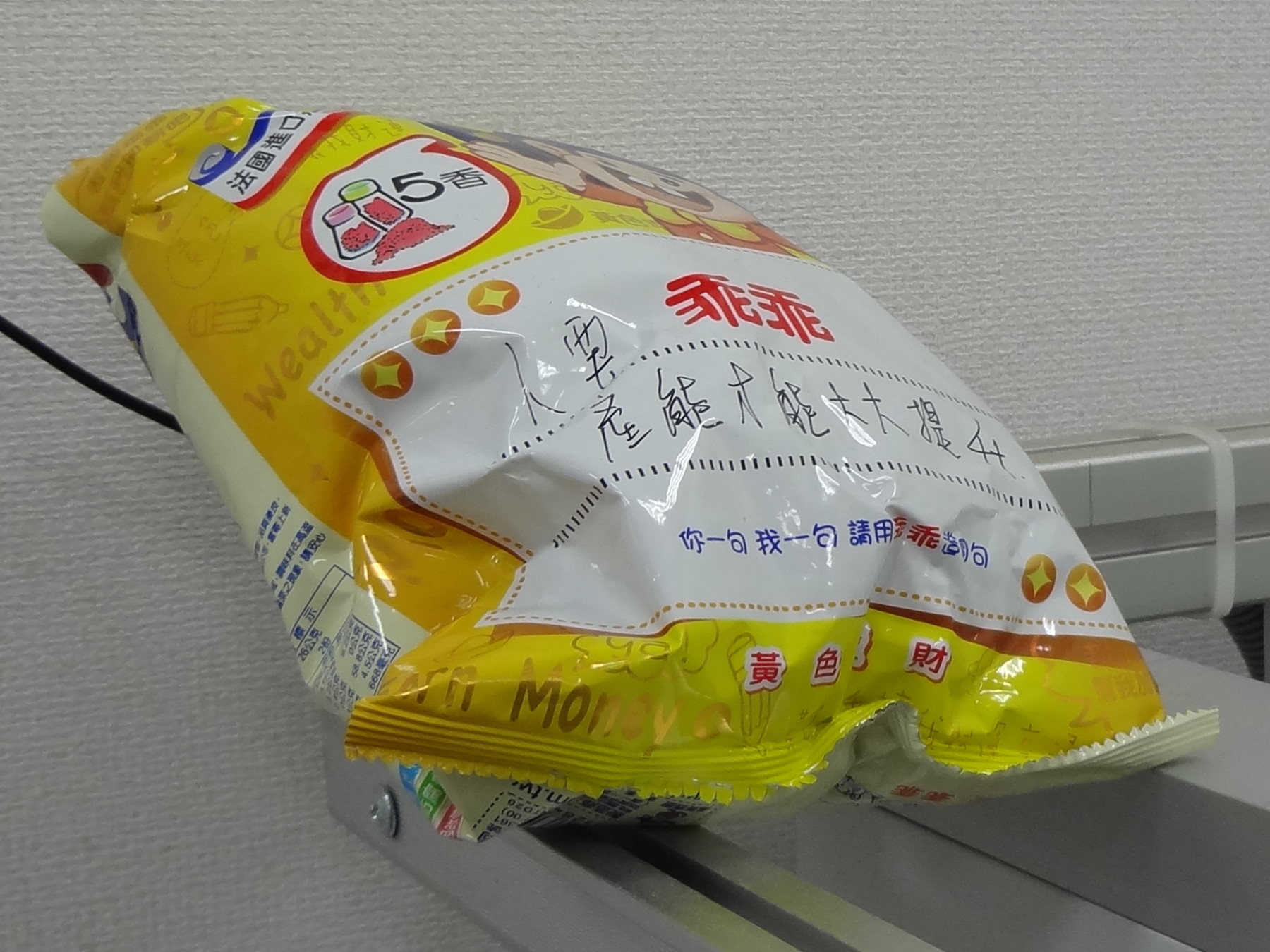 Sentence Making Pack of Five-spice-flavored Kuai Kuai on a conveyor belt.